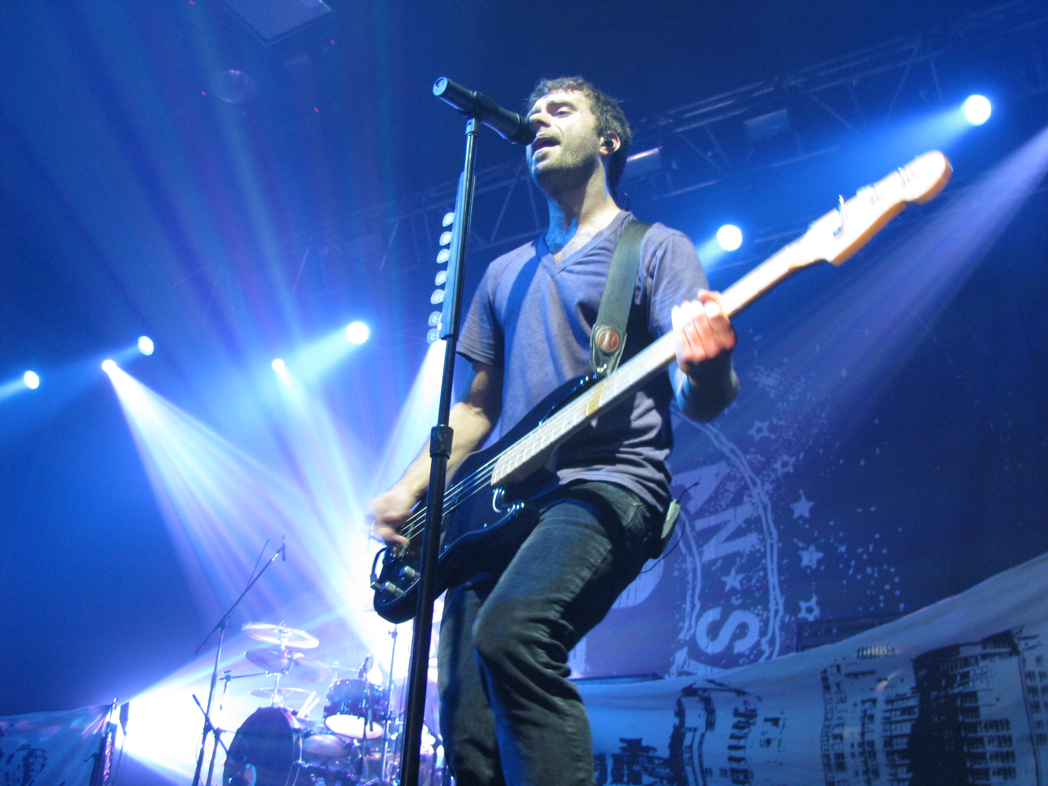 Sebestien Lefebvre of Simple Plan shows off his versatility by playing the bass at the band's show in Tel Aviv, December 3, 2008.